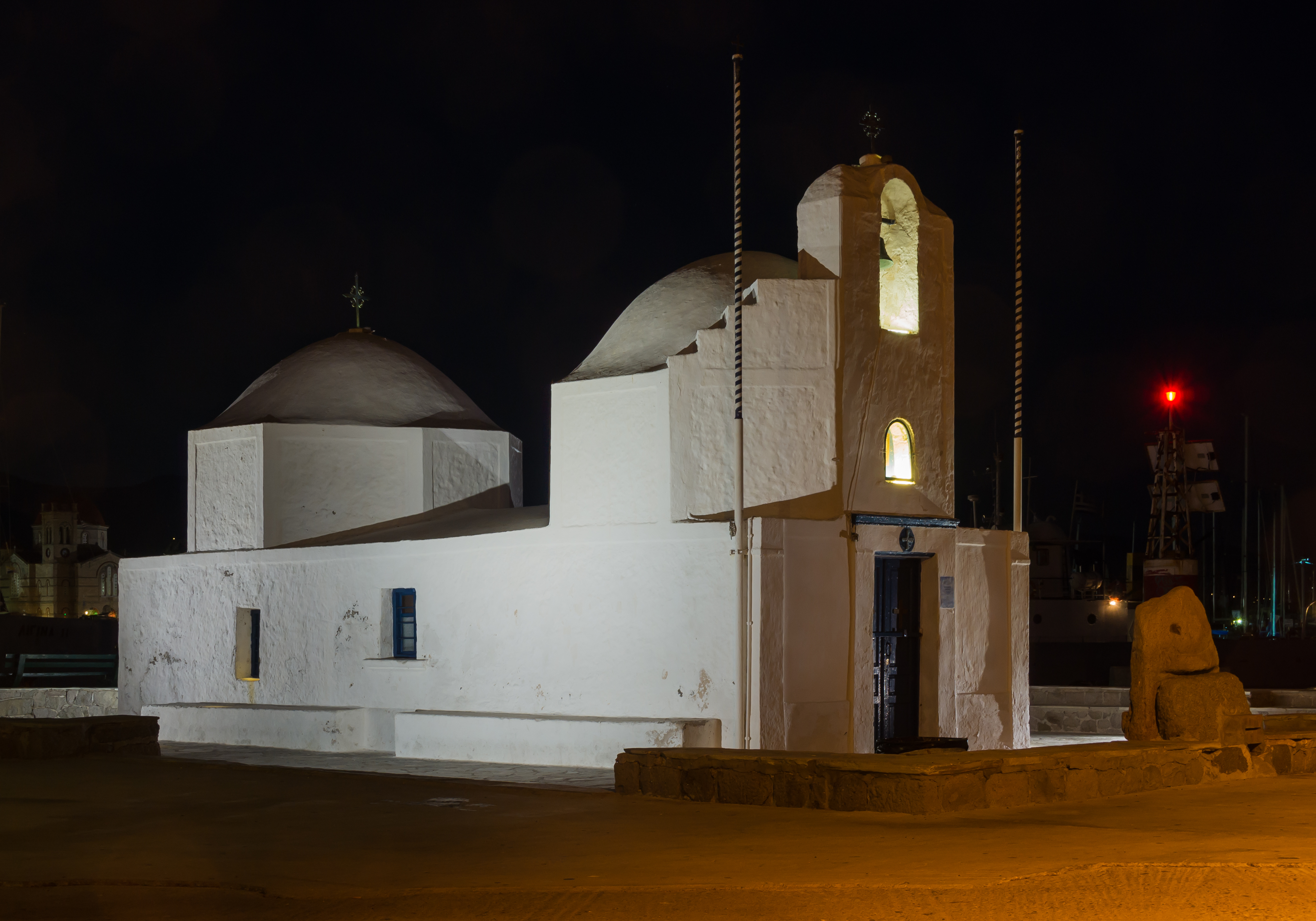 Night view of the chapel of the harbour, Aegina, Greece.